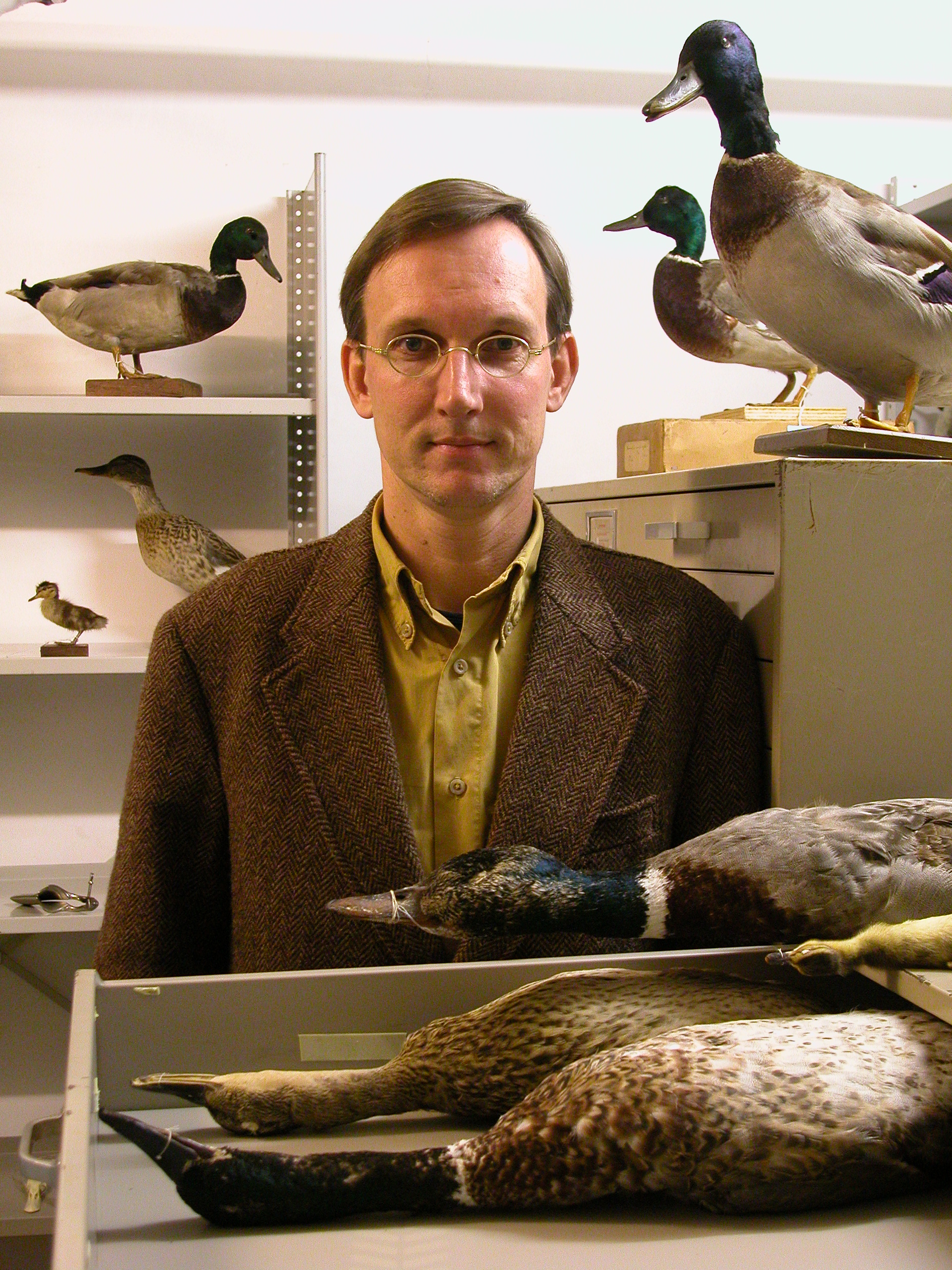 Kees Moeliker with ducks in the Natuurhistorisch Museum Rotterdam